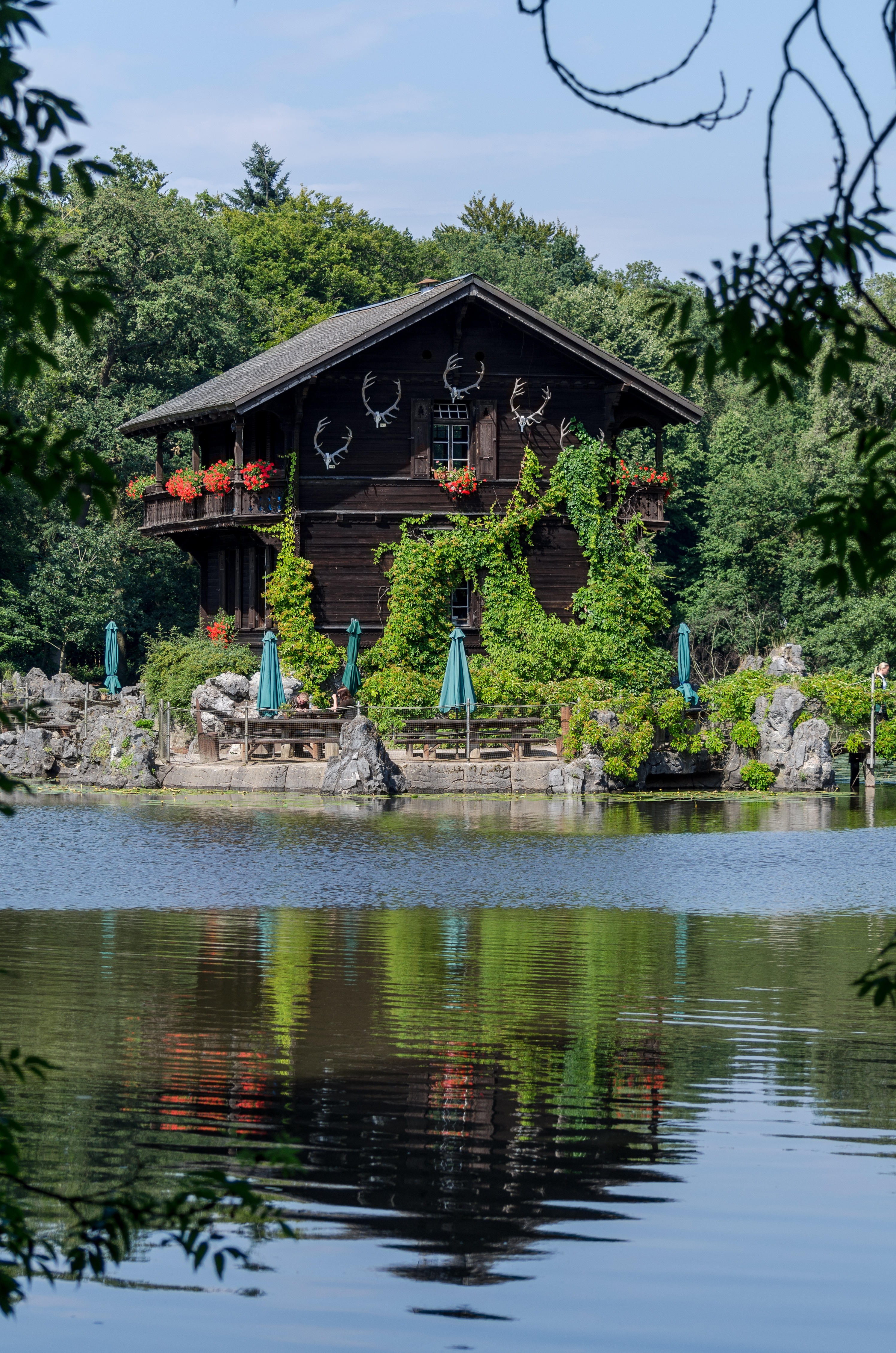 Schweizer Häuschen (Swiss cottage) of Anholter Schweiz